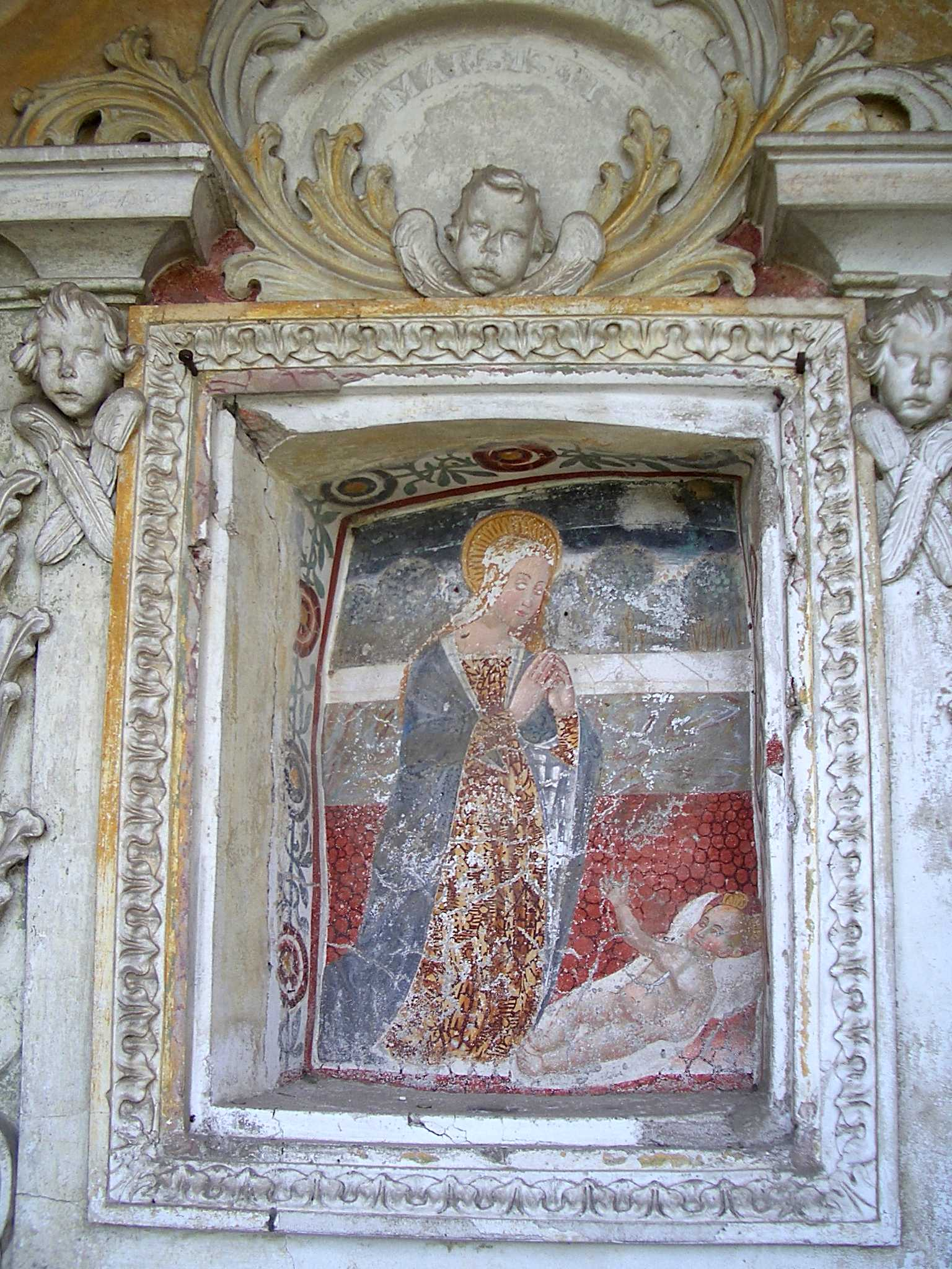 Momo (NO), oratory of Holy Trinity, St. Mary and Child (called Madonna del Presepe), unknown painter, XV century